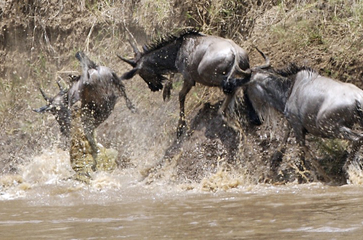 Nile crocodile lunging at a leaping wildebeest youngster